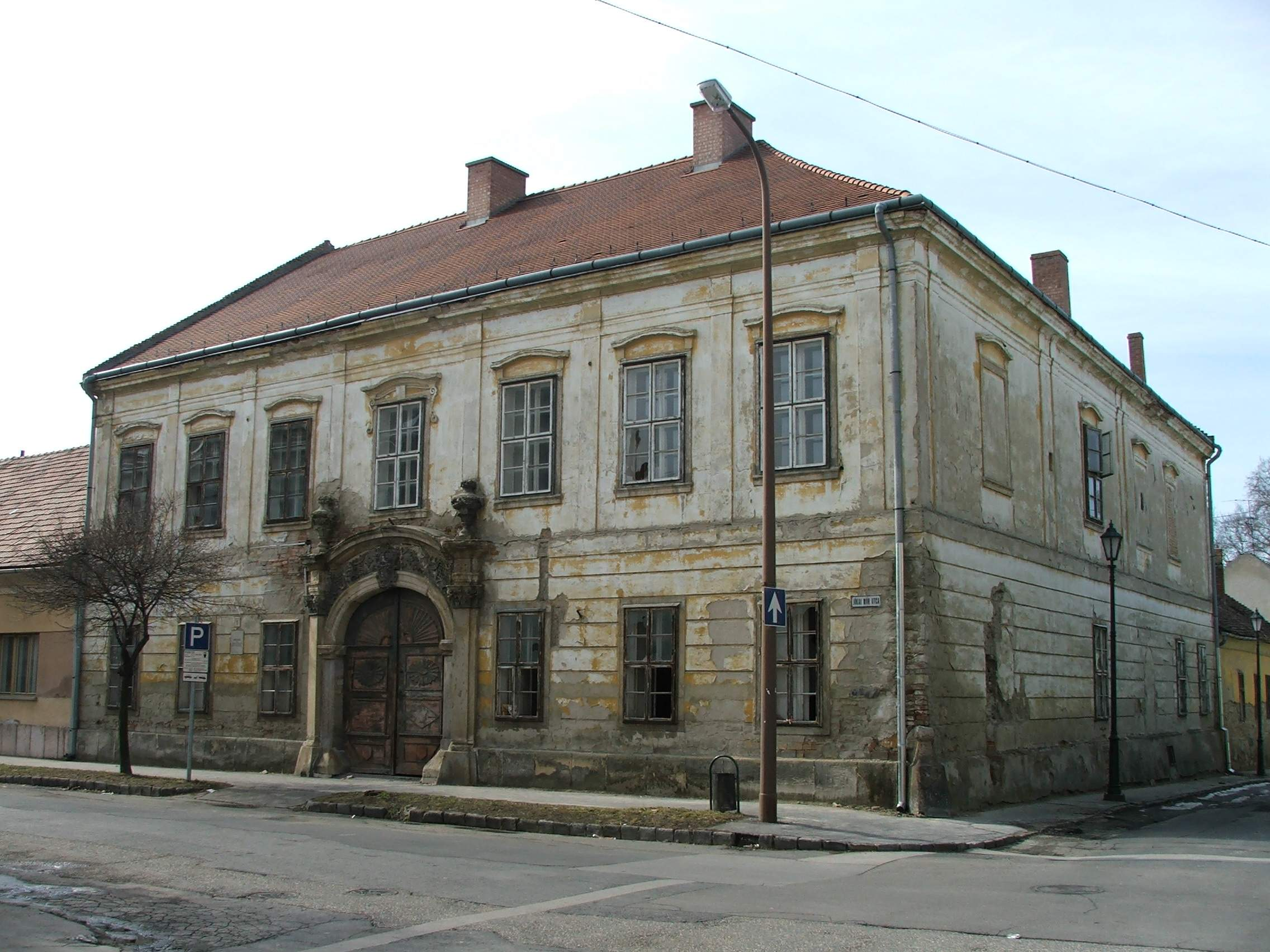 Sándor-palota in Esztergom, before renovations